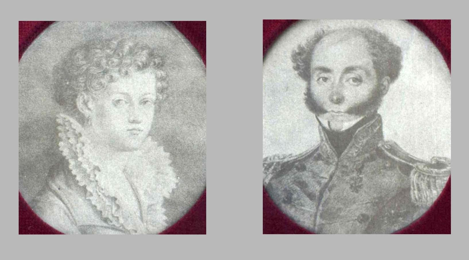 Giulia Michelozzi and Joseph Amerighi